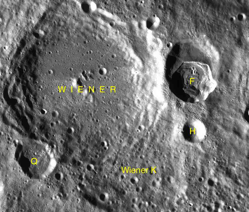 Part of the chart LAC-31 used for the presentation